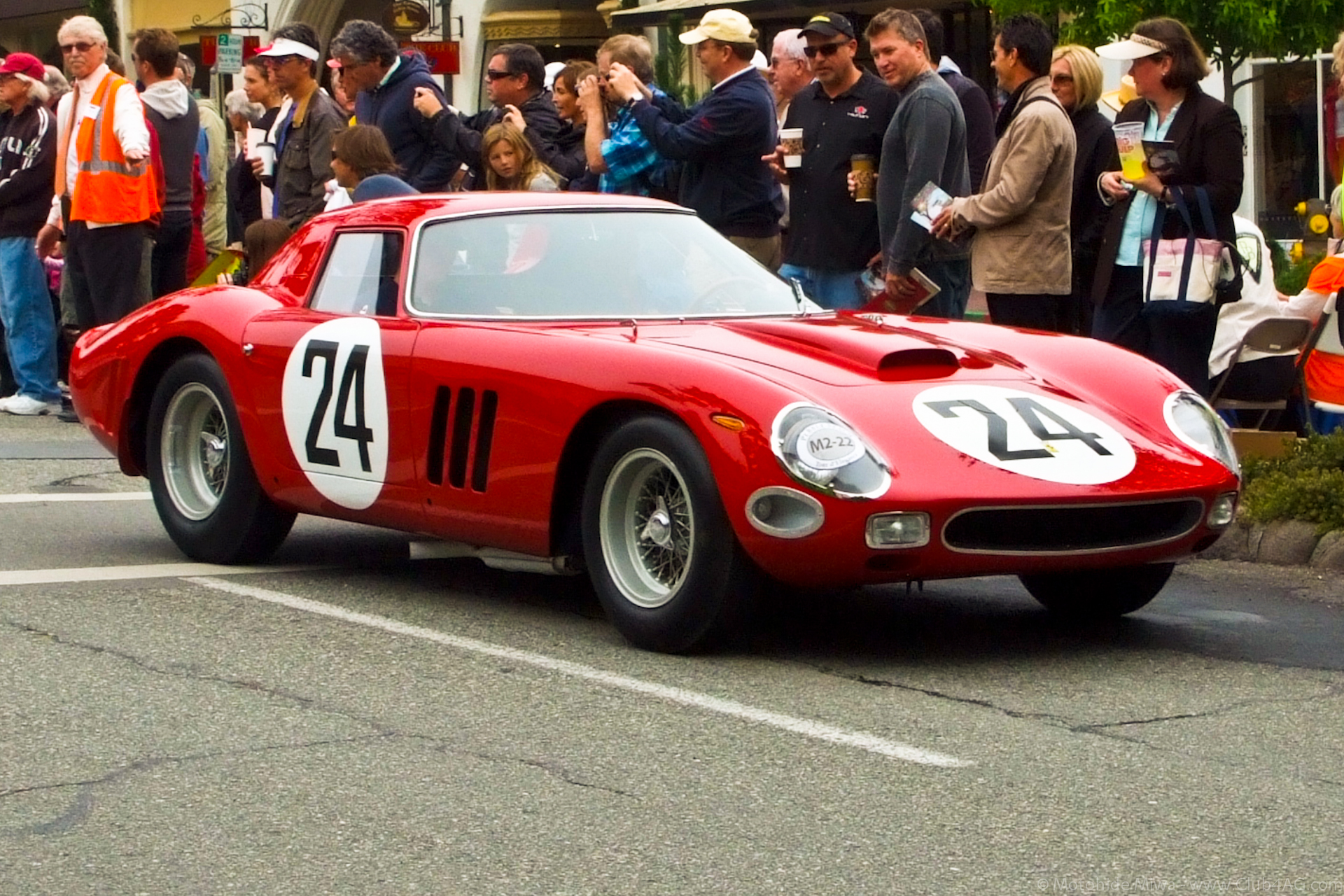 1964 Ferrari 250 GTO ’64 chassis number 5575GT. The first GTO was completed in 1962, having a body sculpted in-house and later revised by Scaglietti. In 1963 steps were made to improve the car, which included an all-new, Pininfarina-designed body. Sometimes referred to as the Series II or '64 GTO, only three examples originally received the new body. These were chassis #5571GT, 5573GT and #5575GT. Their bodies were radically different from the previous GTOs, reflecting the style of the upcoming 250 LM. Monterey_Historics_2011-10-30